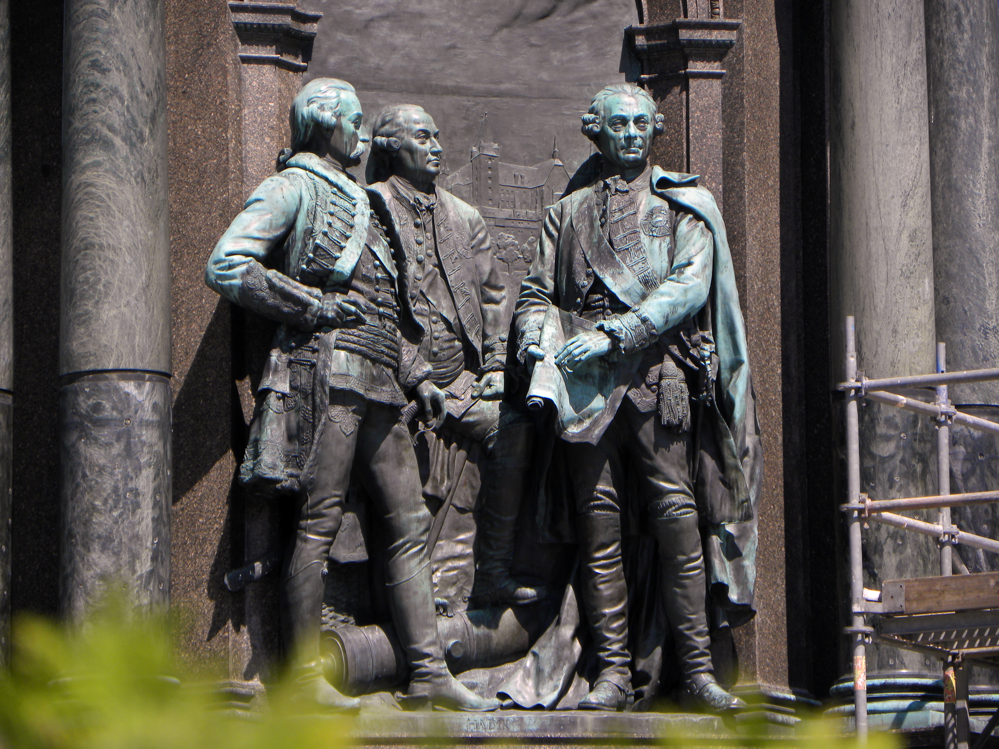 Military section of the Maria Theresa monument at Maria Theresien-Platz without its central statue of Joseph Wenzel I, Prince of Liechtenstein due to restauration works. The background statues represent Franz Moritz von Lacy, András Graf Hadik von Futak and Franz Leopold Graf Nadasdy. The castle Burg Wiener Neustadt can be also seen in the background bas-relief.